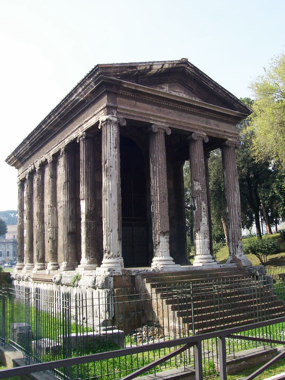 Temple of Portunus, Piazza Bocca della Veritò, Roma, Italy